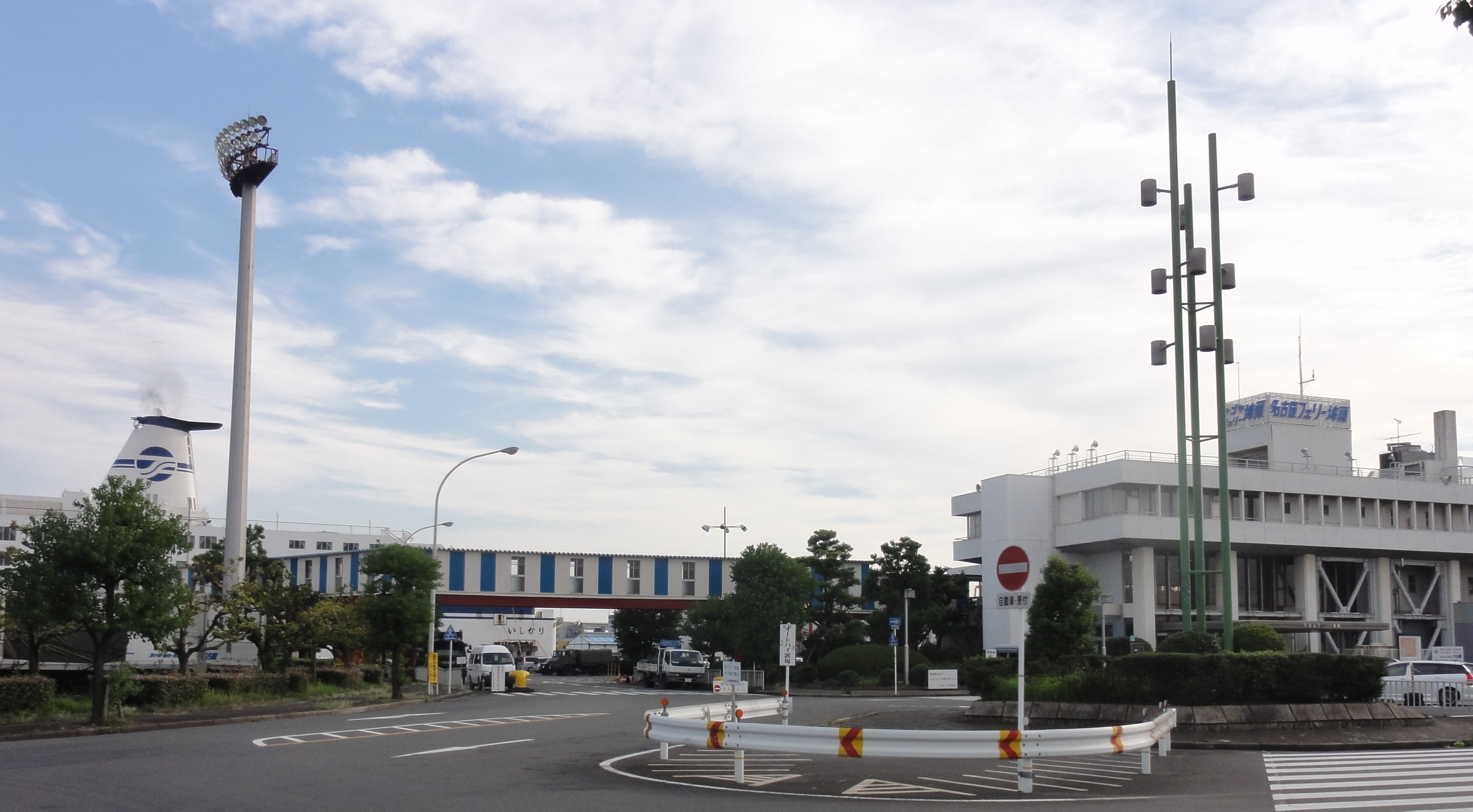 Ferry wharf in Nagoya port,Aichi Pref., Japan